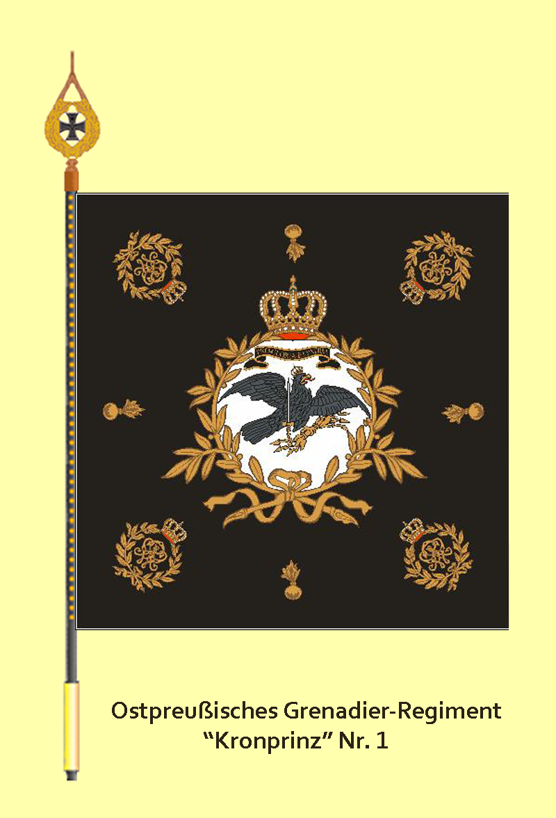 Colors of the prussian 1st Grenadiers Regiment